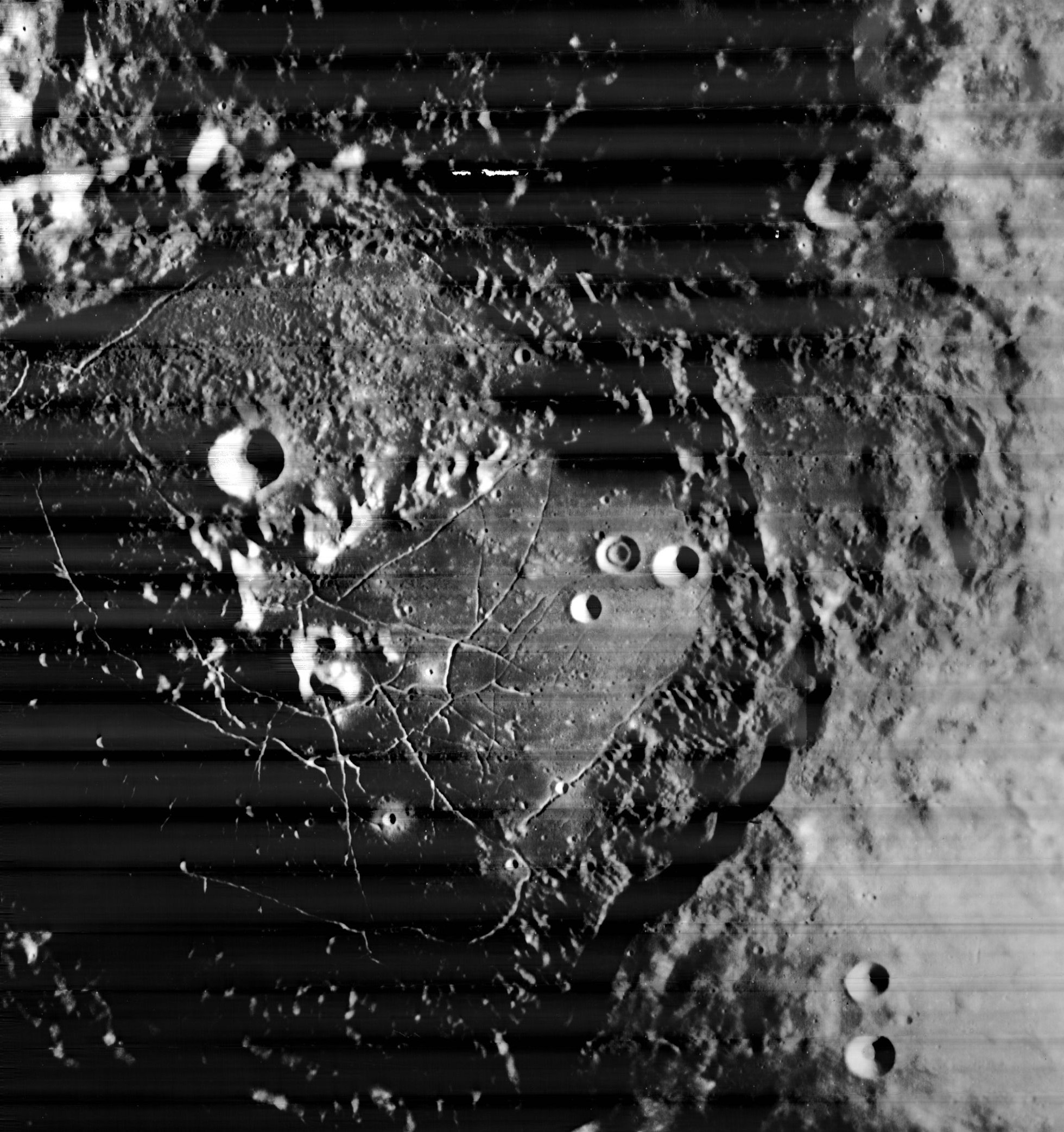 Humboldt, on the moon. On page 96 of The Moon as Viewed by Lunar Orbiter (L. J. Kosofsky and Farouk El-Baz, NASA SP-200, 1970), a substantial portion of this image is shown with the following caption: "Humboldt, a large crater 200 kilometers across, having an unusually regular system of fresh-appearing rilles on its floor, resembling a spider web. The rilles cut across a complex of massive peaks near the center, a hummocky unit in the northwest part of the floor, and a light-toned plains unit covering the hummocks in the southeast. Some rilles are filled in by the dark mare material which occurs in patches around the periphery of the floor. The rilles may have formed as a result of slow isostatic rebound of the floor. Location: 26 (deg) S, 83 (deg) E. Framelet width: 12 kilometers."